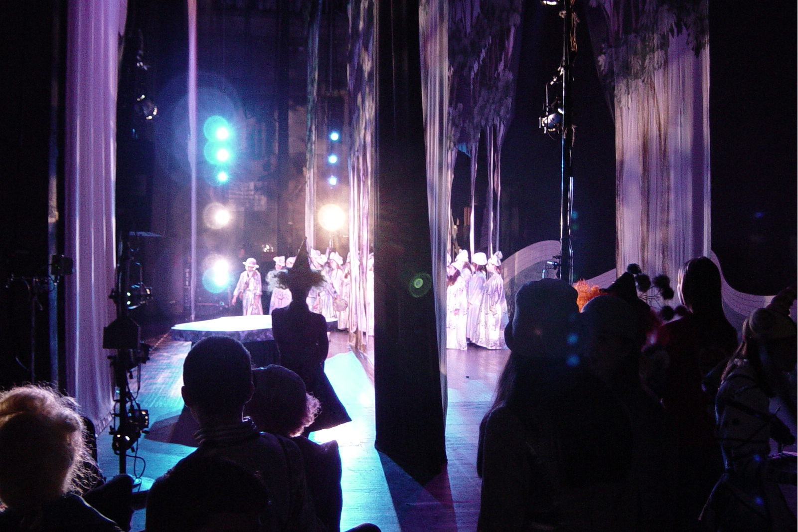 View from the wings backstage of the children's opera The Trio of Minuet